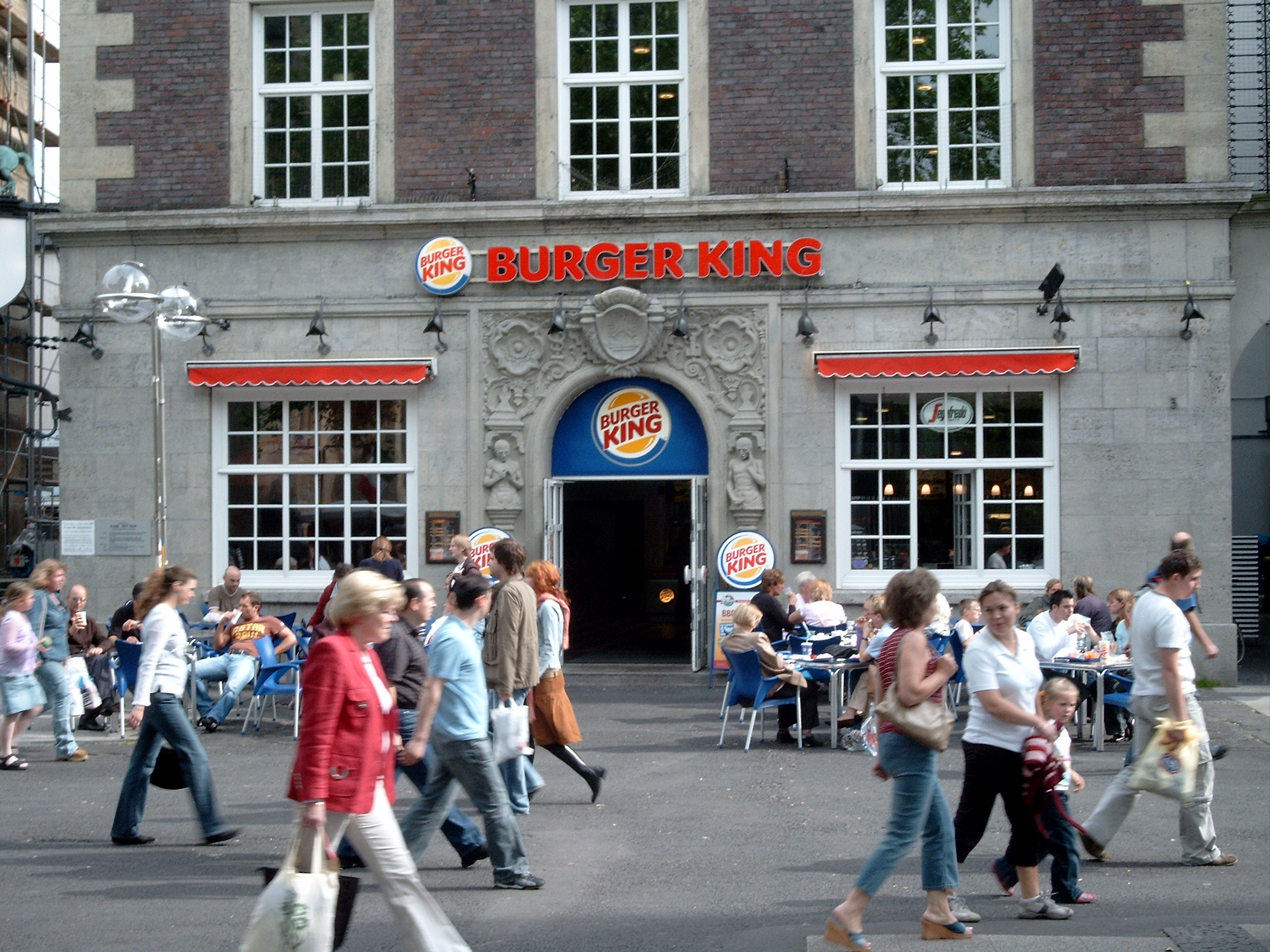 BurgerKing Store (in former times a Kentucky Fried Chicken store) in Dortmund, Germany